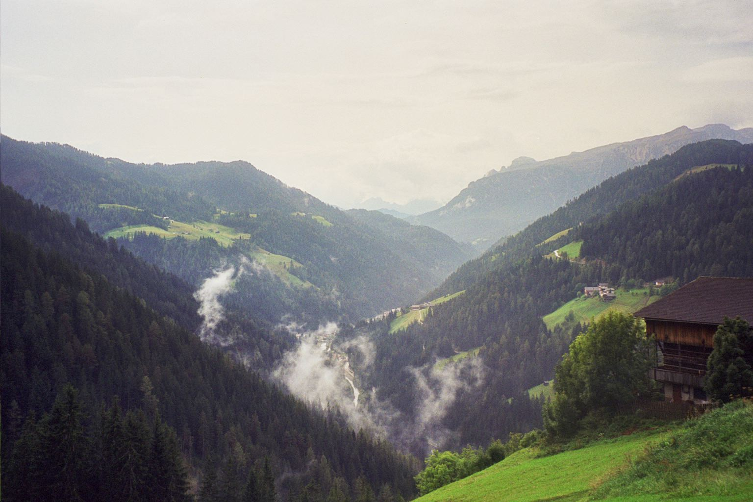 Gader valley seen from Costa in La Val